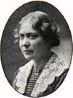 Alfhild Tamm (1876-1959), Swedish psychiatrist